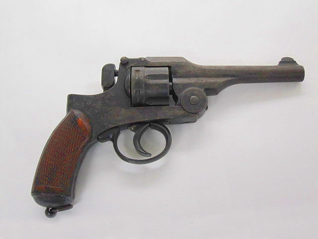 Accession :2002-10-2 Revolver, Japanese, Type 26, Serial#19978. 9.5"L The revolver is a six shot, top break, double action. The revolver uses 9MM rimmed cartridges. This type of revolver was made from 1893 through to 1914. This example was reported to been recovered in the Pacific from a Japanese officer. Collection of Curator Branch, Naval History and Heritage Command